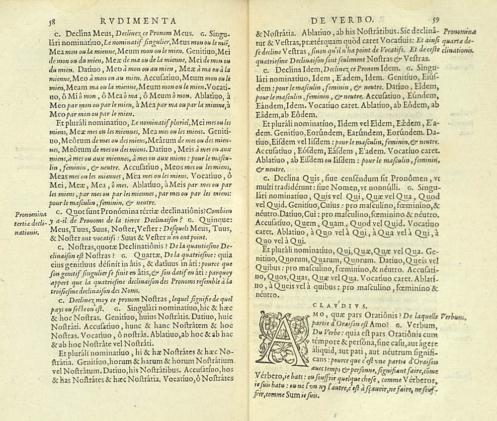 Page-spread from the "Rudimenta Latinogallica" printed by Robert Estienne in 1585. Copy of the Bibliothèque Universitaire Tours Fonds Ferdinand Brunot.